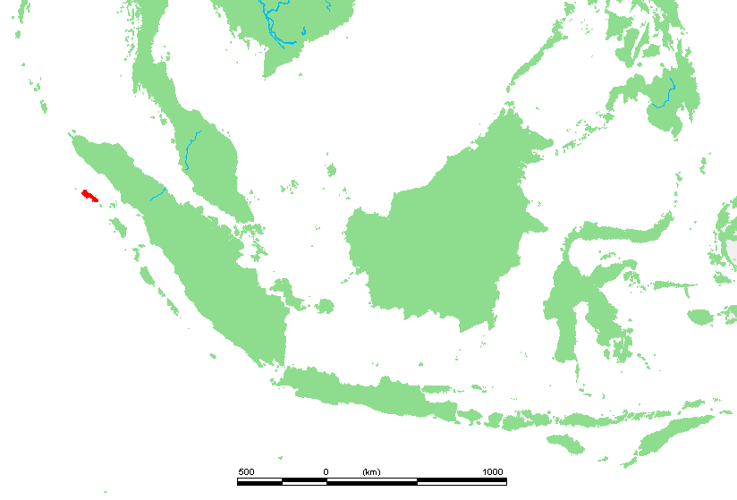 Location of Simeulue, Indonesia